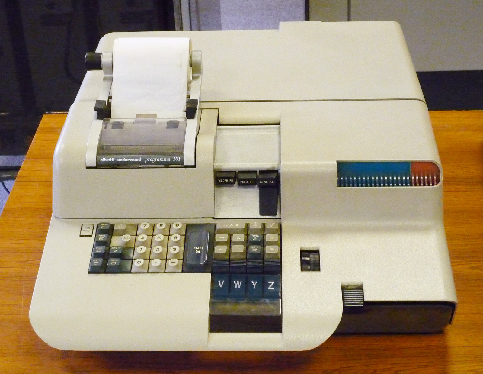 front view of an Olivetti-Underwood Programma 101 electronic programmable calculator, on display at The National Museum of Computing